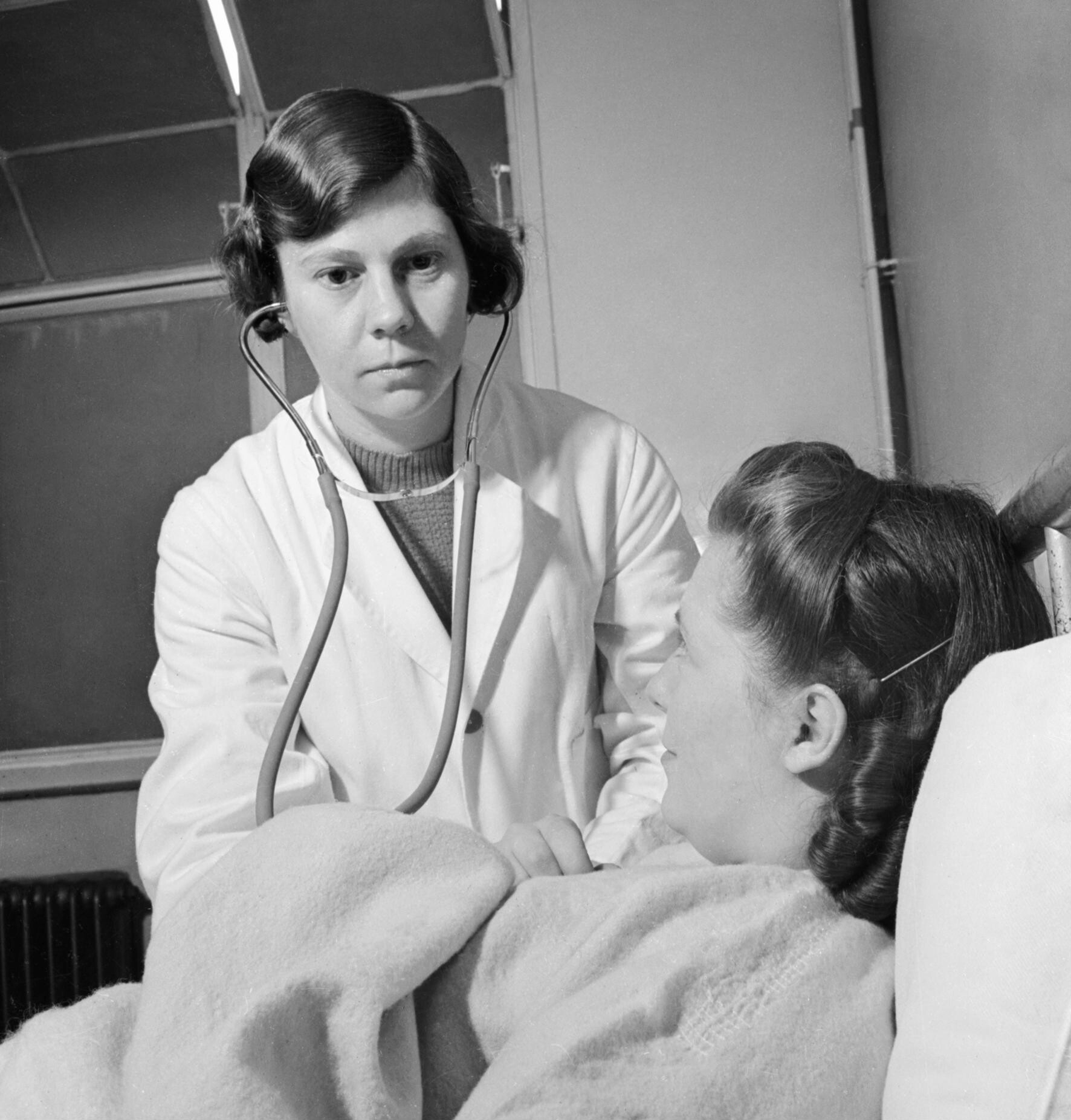 Dr Gibson-Hill examines Irene Stacey with a stethoscope at Southmead Hospital in Bristol, prior to the birth of her first child in 1942.